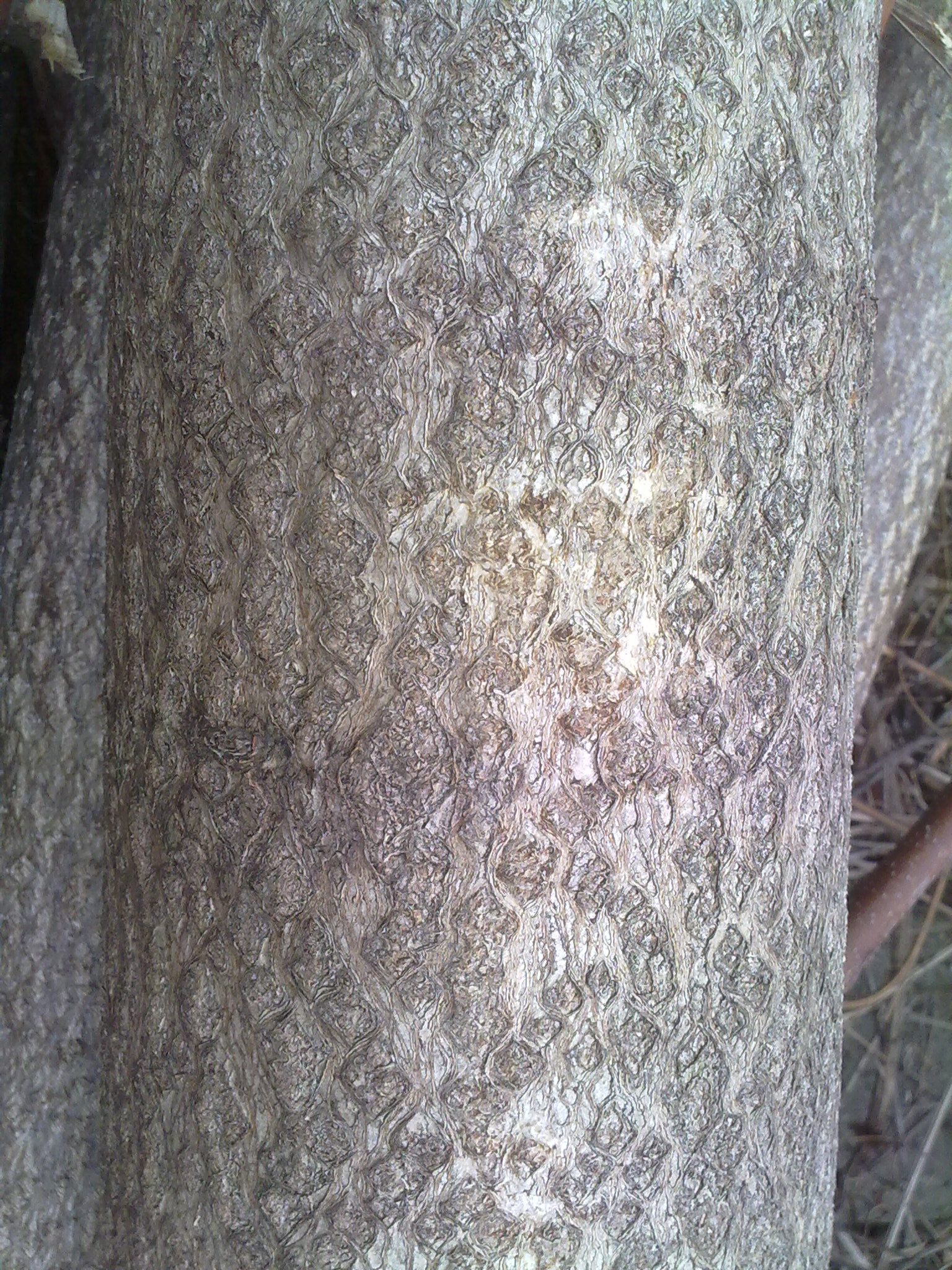 Bark of a 100mm thick heaventree.